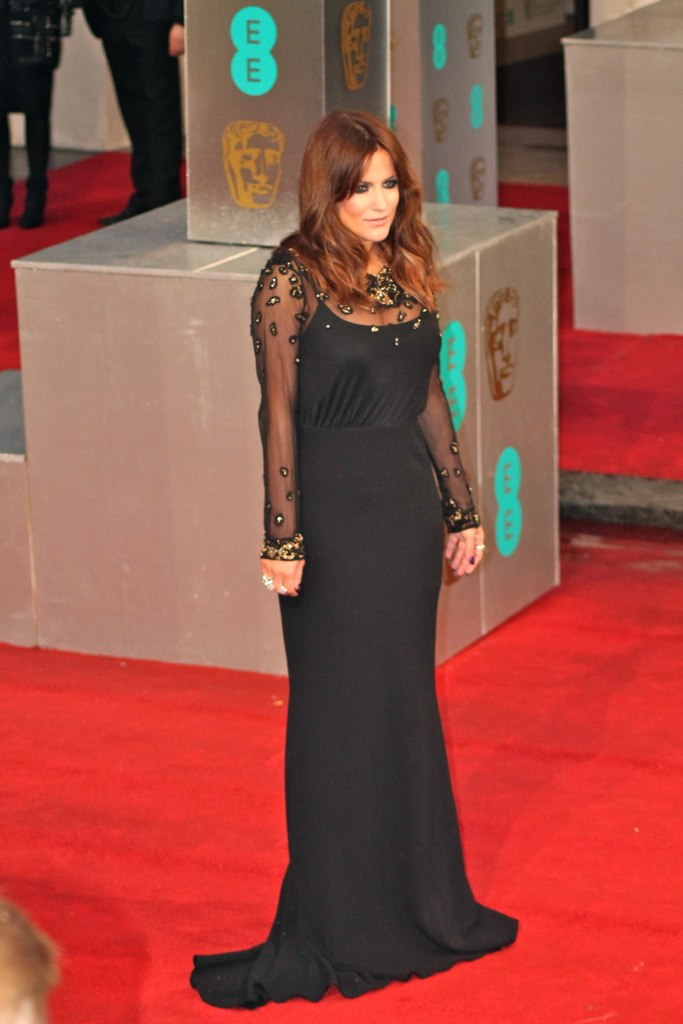 Caroline Flack at the 2013 BAFTA Awards